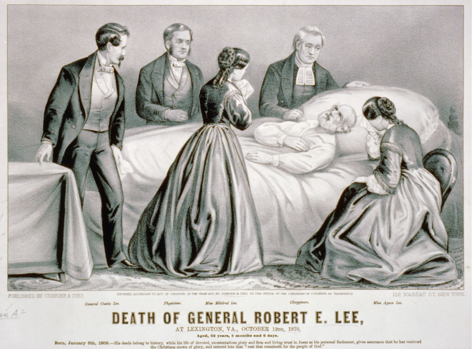 Death of General Robert E. Lee: At Lexington, Va., October 12th, 1870, aged, 62 years, 8 months and 6 days. Lithograph.